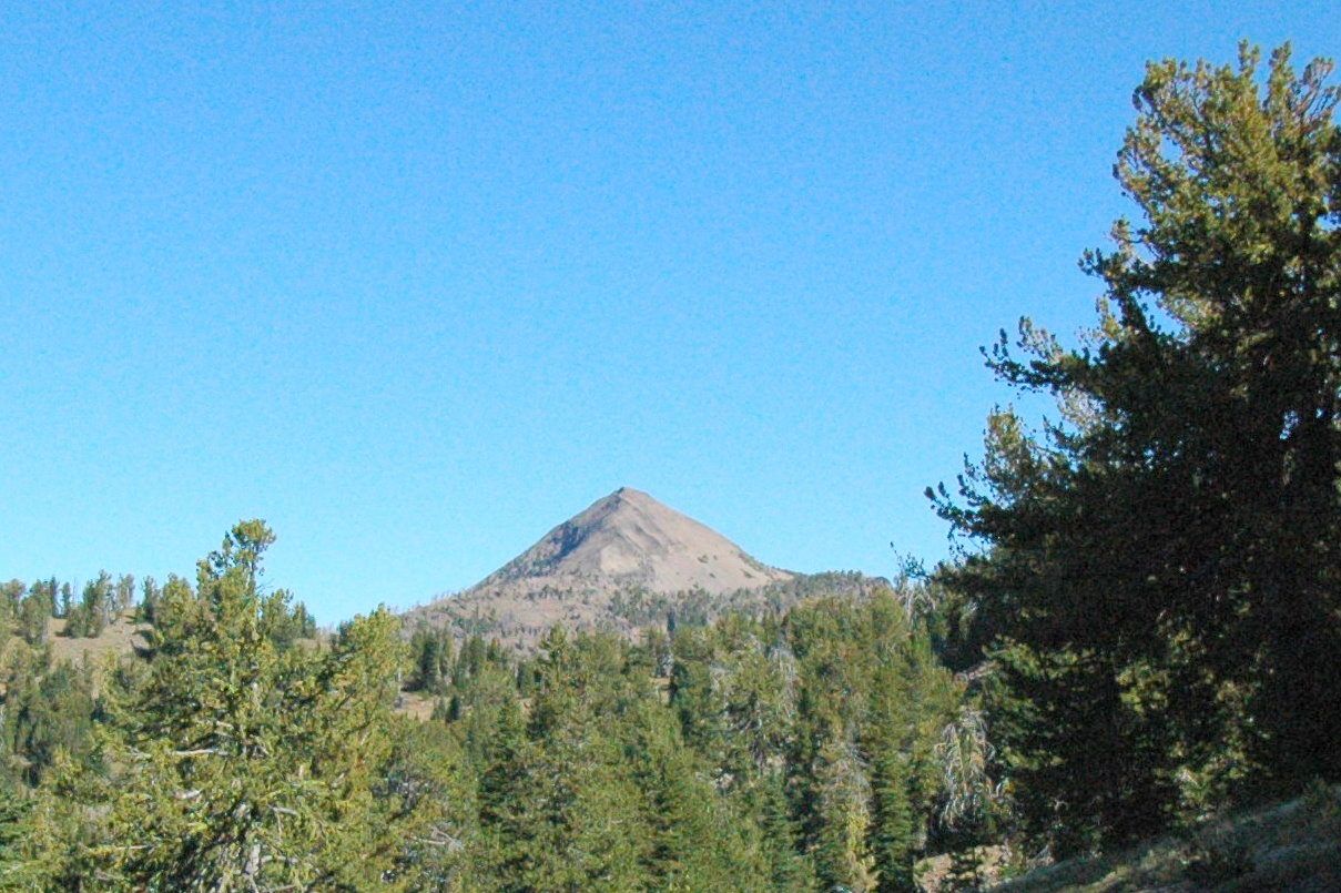 Strawberry Mountain peak.